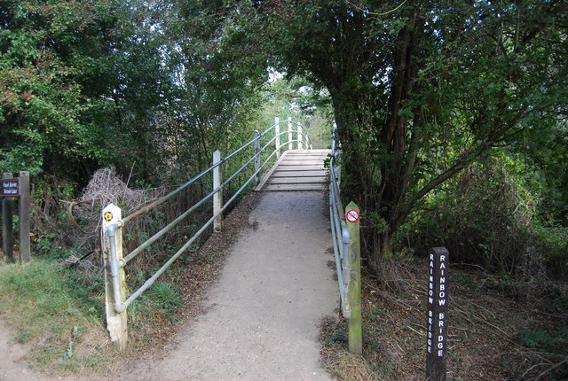 Rainbow Bridge, Haysden Country Park This footbridge crosses the "Shallows" a cut off meander of the River Medway